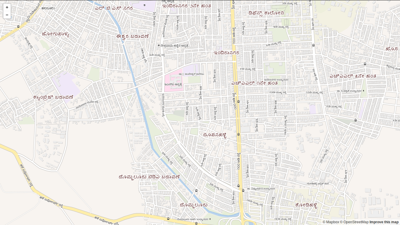 Openstreetmap rendered in Kannada